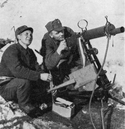 Norwegian Army soldiers operating a Colt M/29 heavy machine gun on the front-line north of Narvik